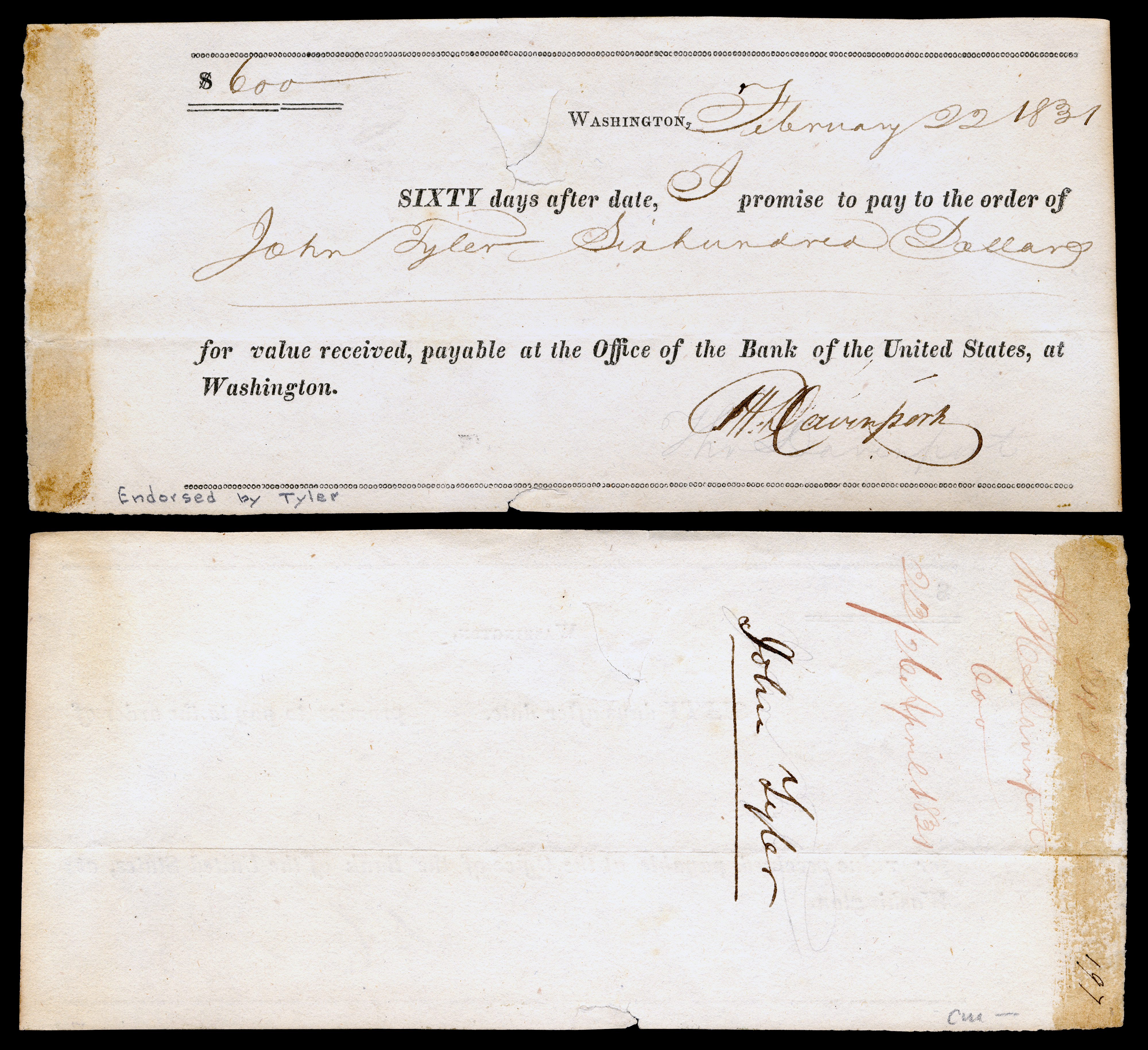 A signed check by John Tyler (10th President of the United States) while serving as.